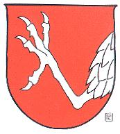 Coat of arms of Mariapfarr, Salzburg